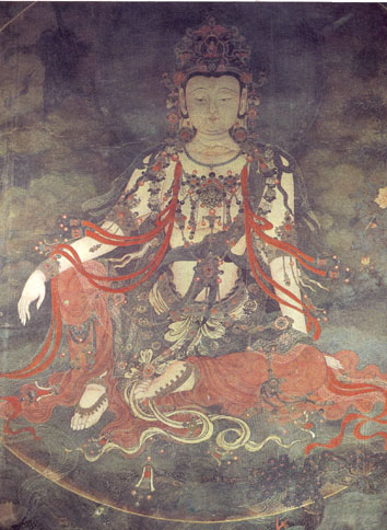 Fresco inside the Fahai Temple in Beijing